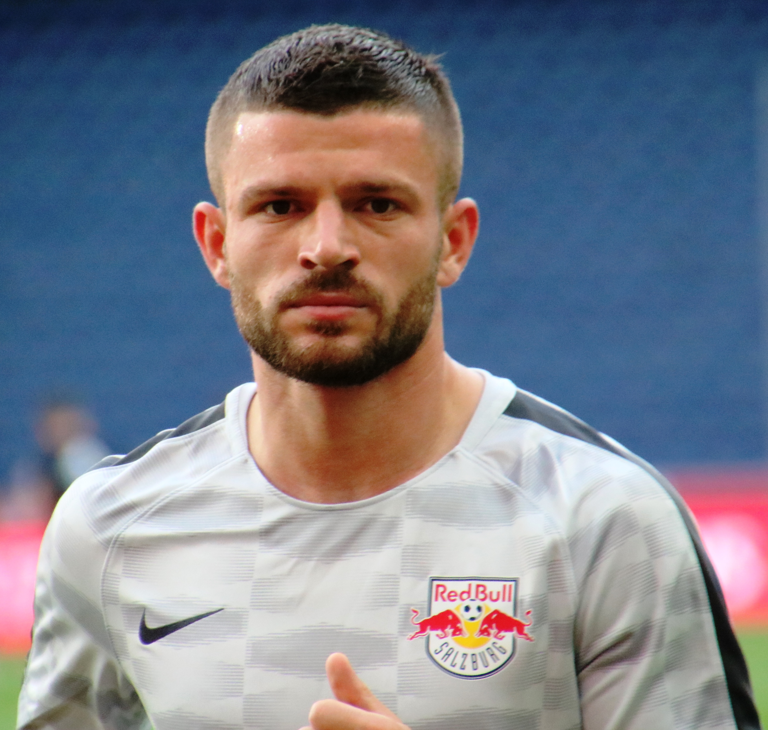 pre season match